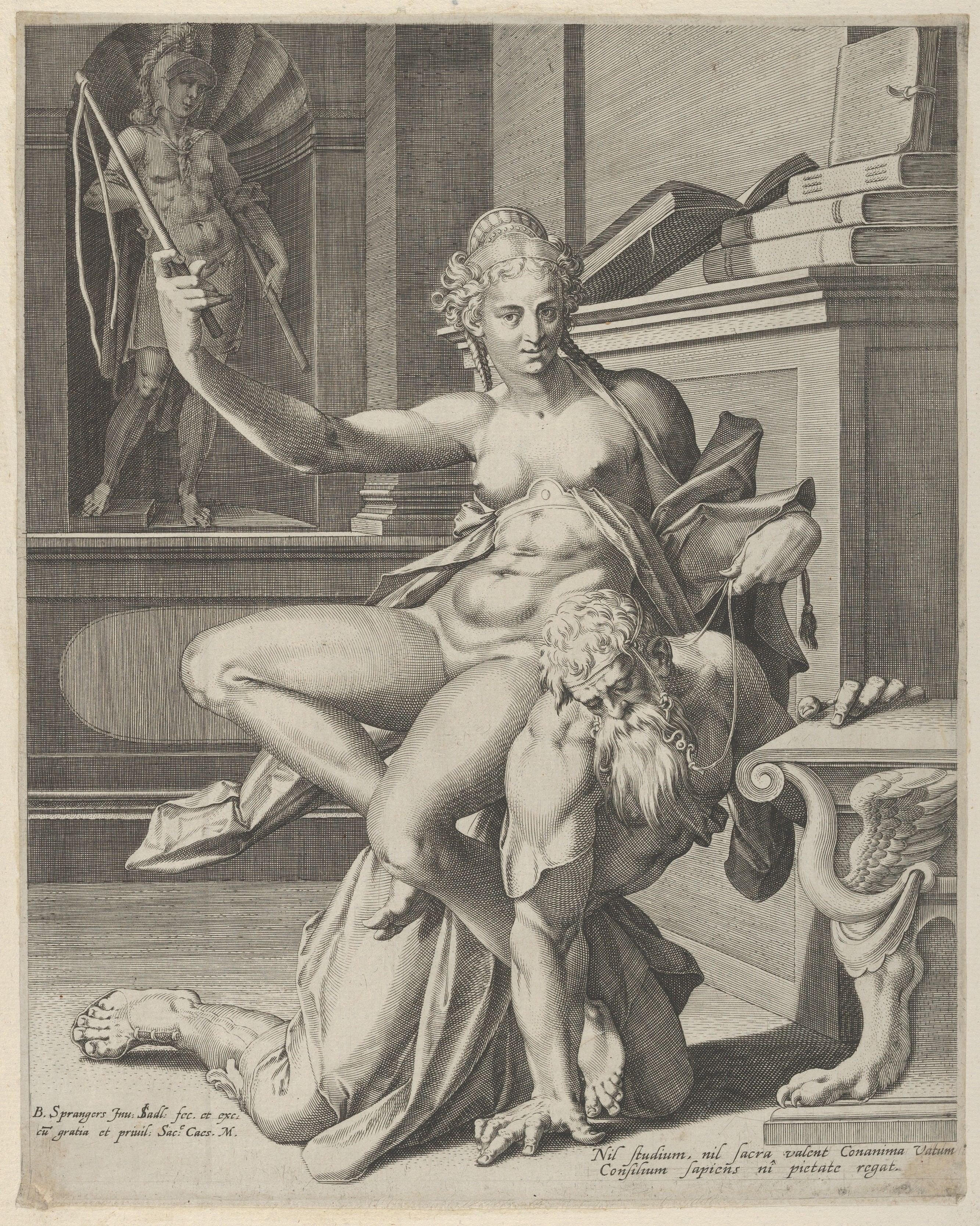 The tale of Phyllis and Aristotle